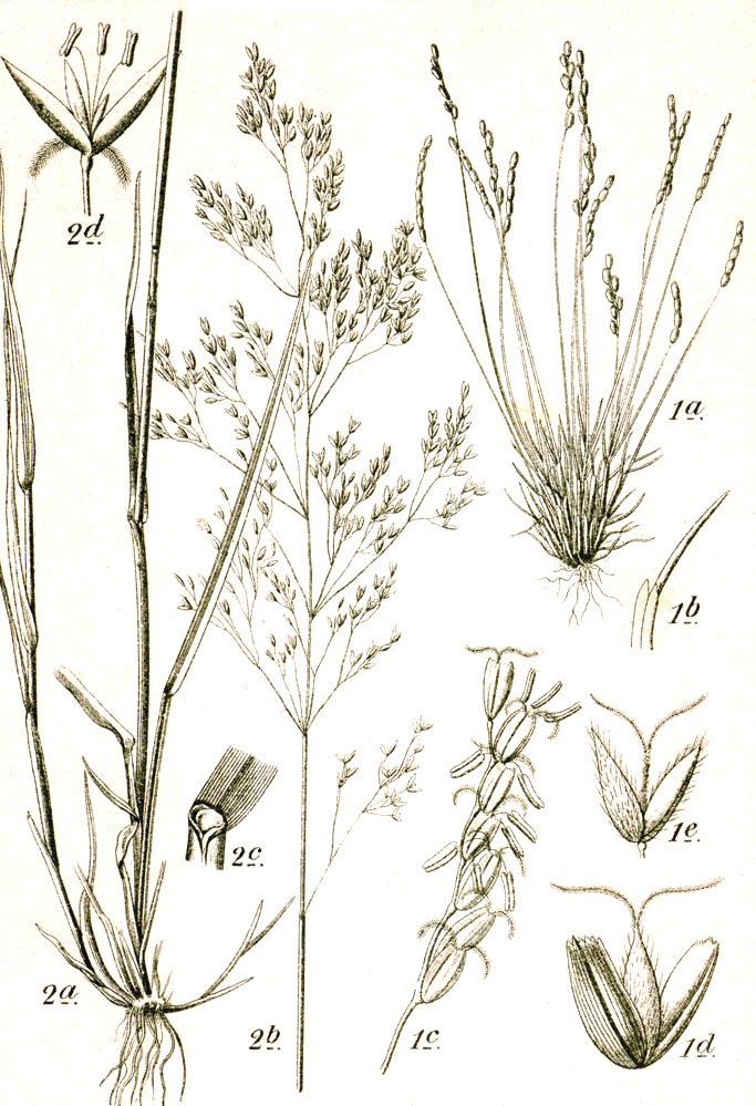 1. Mibora minima (L.) Desv., syn. Mibora verna (Pers.) P. Beauv. 2. Agrostis capillaris L., syn. Agrostis vulgaris With. Original Caption 1. Zwerggras, Mibora verna Adans. 2. Rotes Straussgrass, Agrostis vulgaris With.